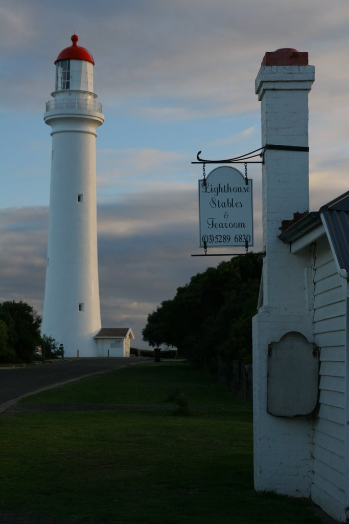 Split Point Lighthouse at Airey's Inlet, Victoria.